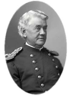 Frederick William Benteen (Petersburg, 24 August 1834 – Atlanta, 22 June 1898)